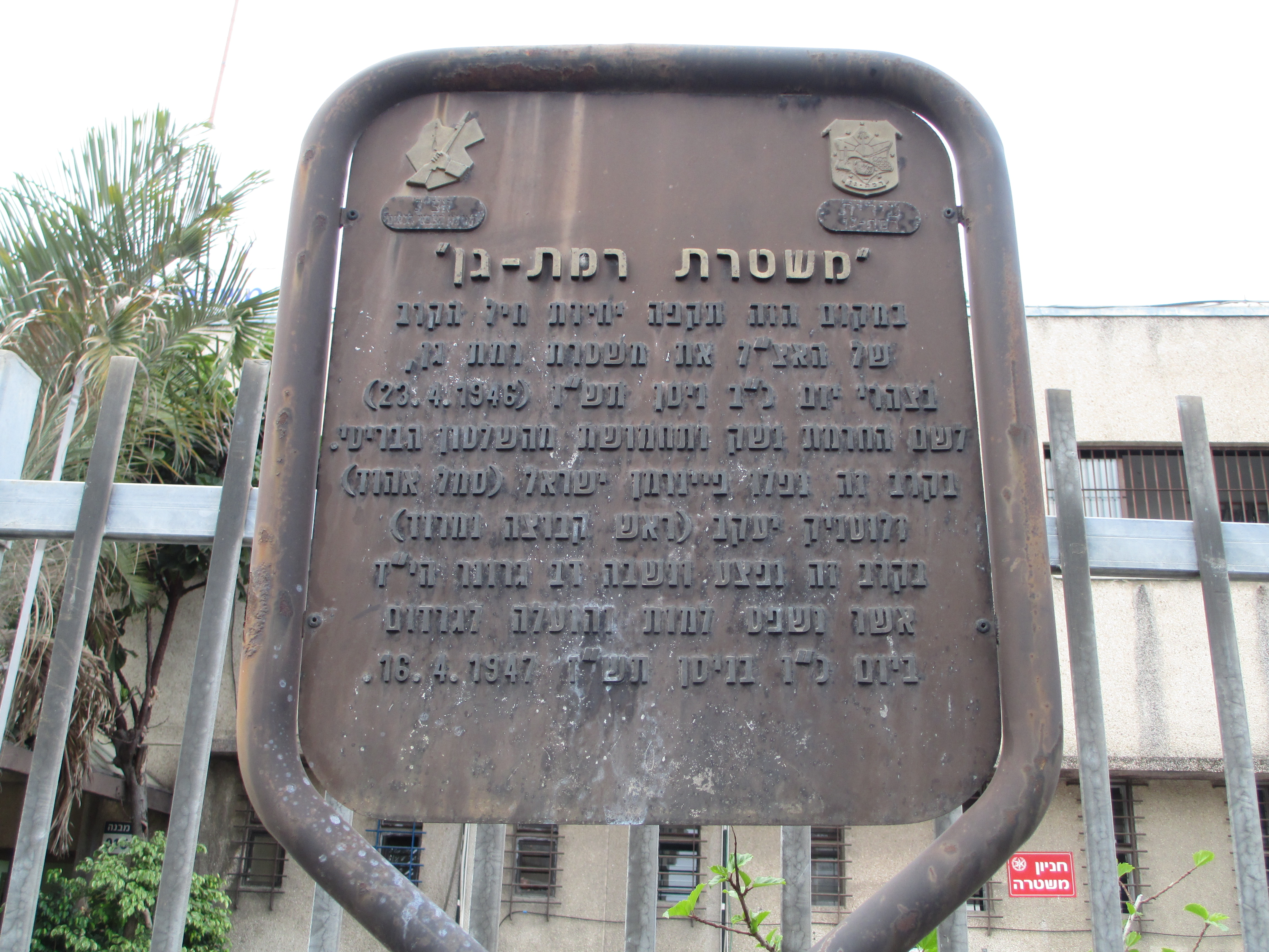 irgun memorial plaque in ramat gan police station, israel לוחית זיכרון בתחנת המשטרה ברמת גן לזכר התקפת האצ"ל על התחנה ב-1946